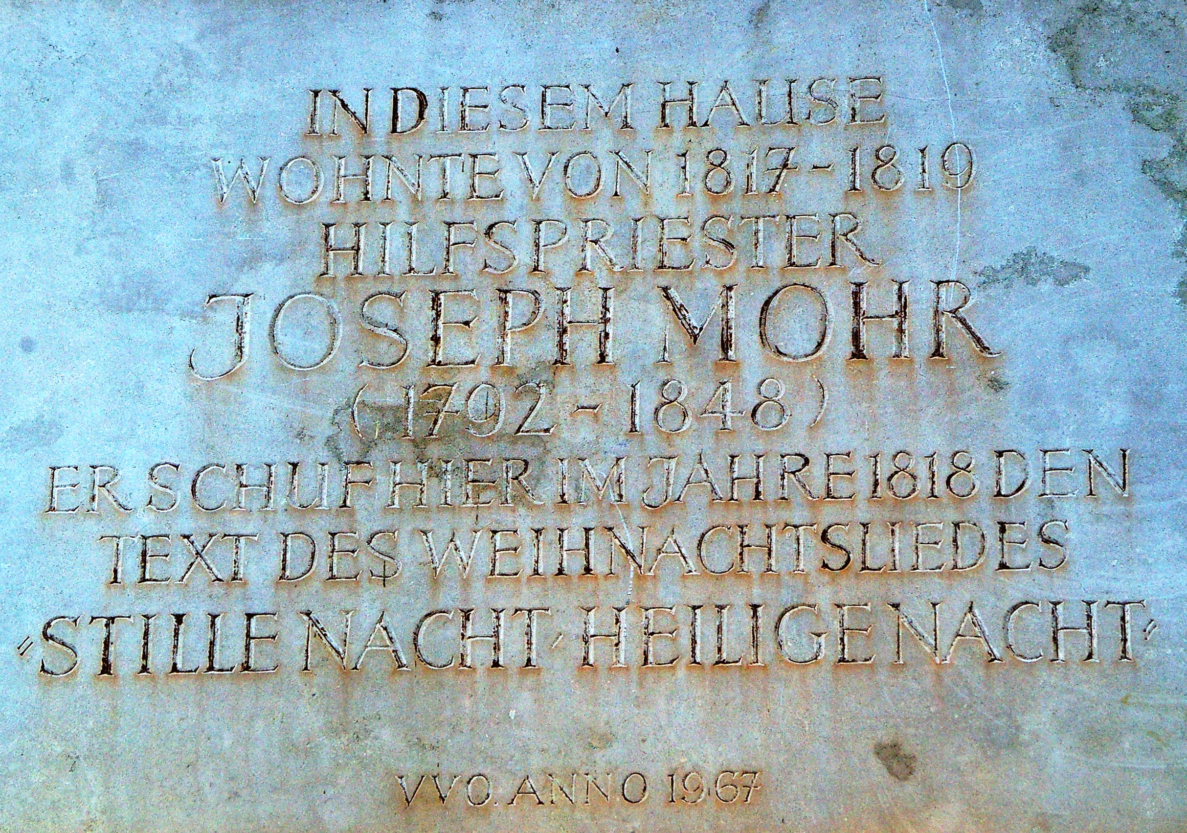 Silent Night Chapel